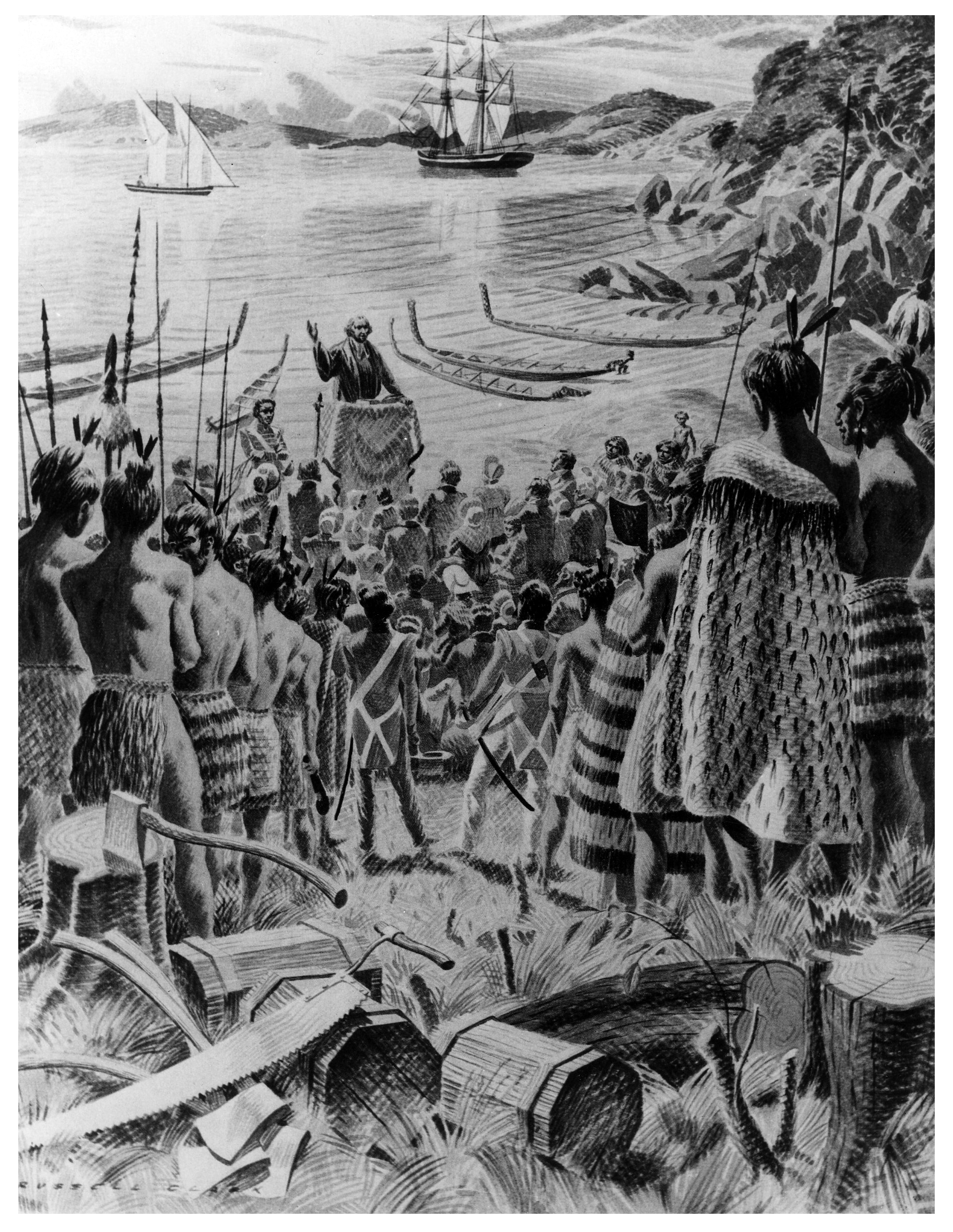 Russell Clark's reconstruction of Samuel Marsden's Christmas Day service at Oihi Bay in the Bay of Islands in 1814 is how many New Zealanders have visualised the 'first' Christmas service in this country. Clark’s work commemorated the 150th anniversary of the event and shows Marsden at a makeshift pulpit preaching to a large group of Māori and Europeans. Ruatara, the Ngāpuhi leader Marsden had met in Port Jackson (Sydney), translated the service and can be seen to Marsden’s right. This print of a painting comes from a series of prints used or created by the Lands and Survey Department. Archives Reference: AANS 8128 W5154 Box 74 Material from Archives New Zealand